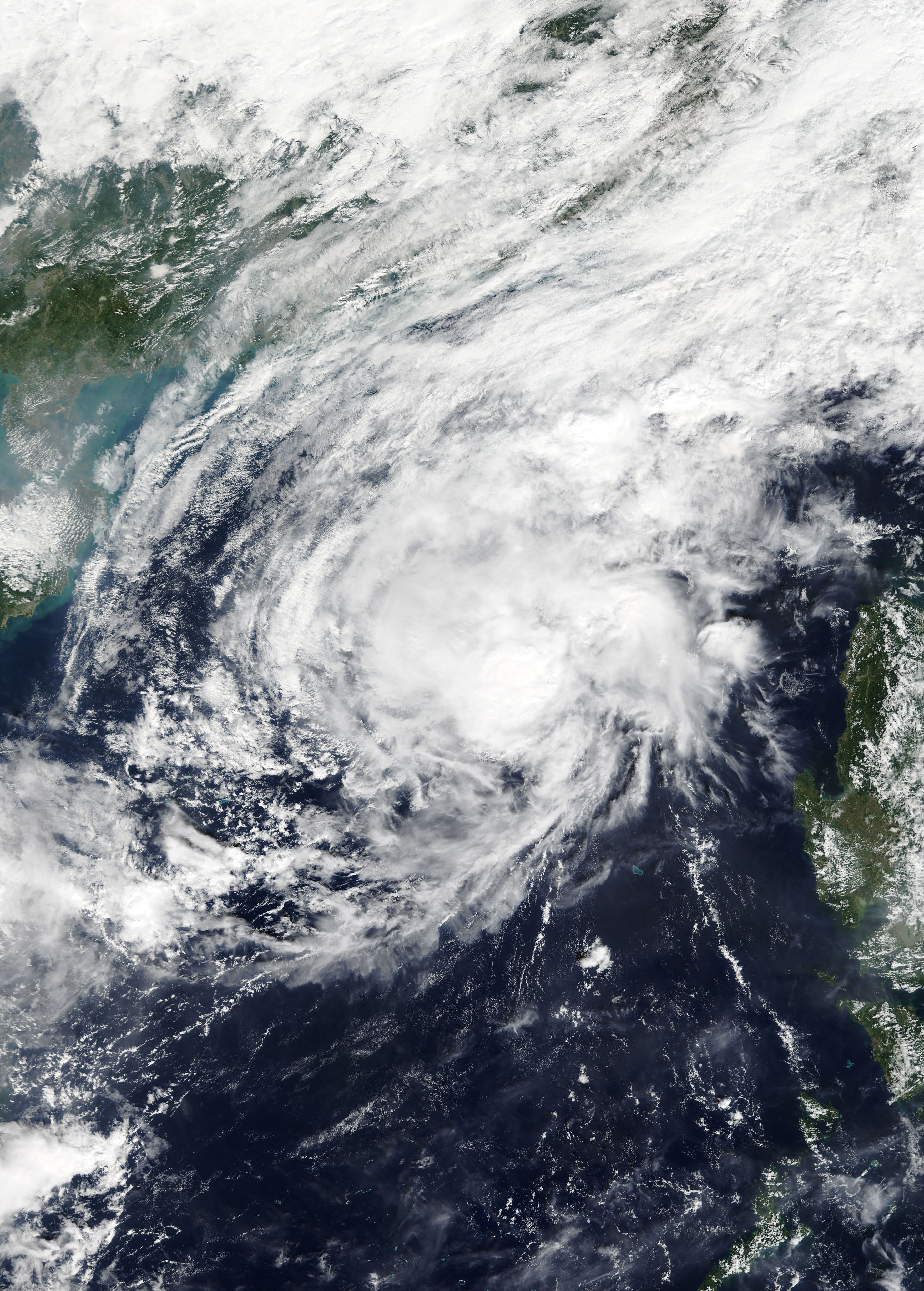 Tropical Storm Haikui (30W) over in the South China Sea on November 11, 2017